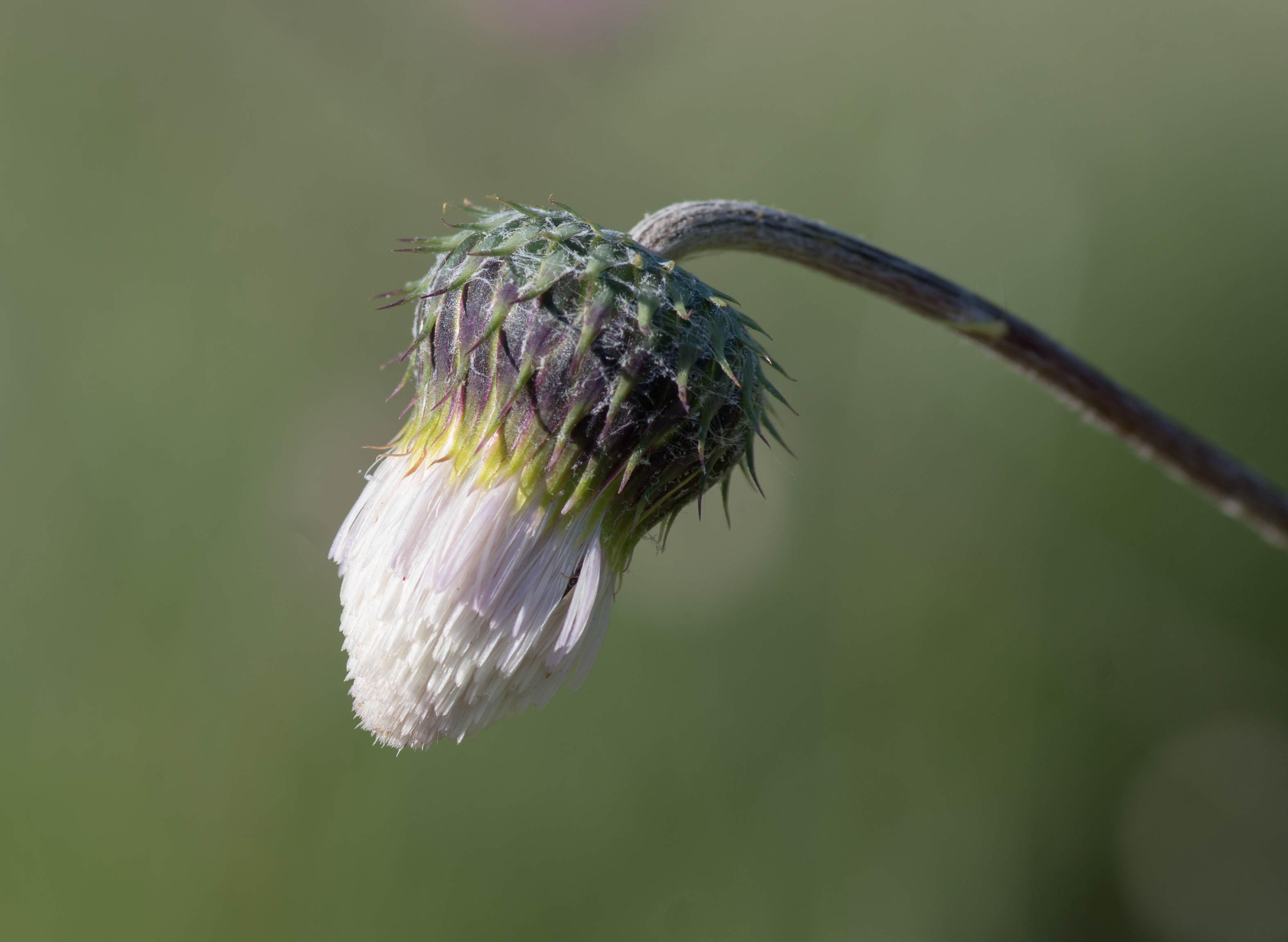 Inflorescence of Tyrimnus leucographus L. (Cassini) - Only known species of the genus Tyrimnus - Jardin des Plantes de Paris